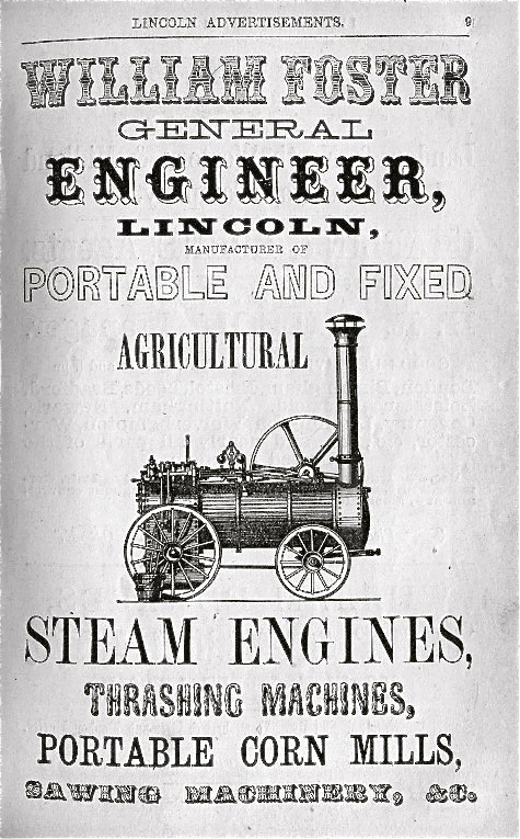 William Foster, Engineer, Lincoln 1863